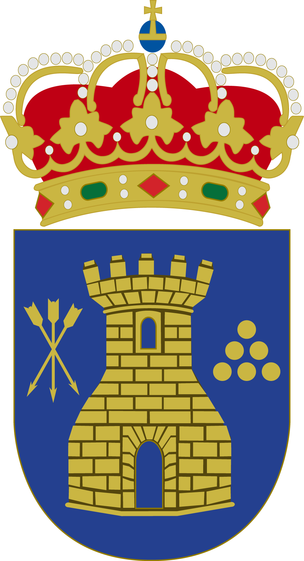 Coat of arms of Casares, Malaga (Spain)